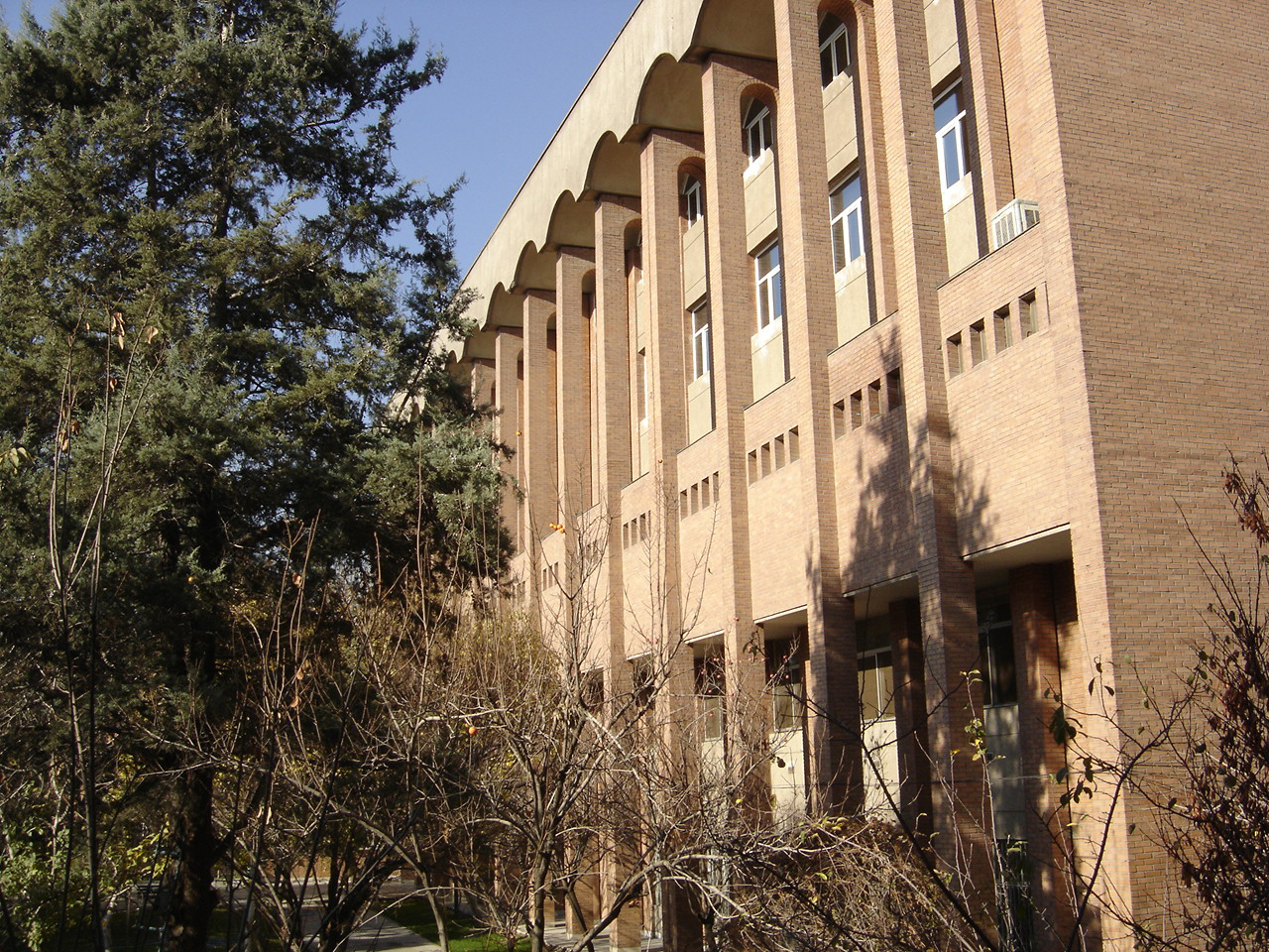 University of Tehran Faculty of Economics